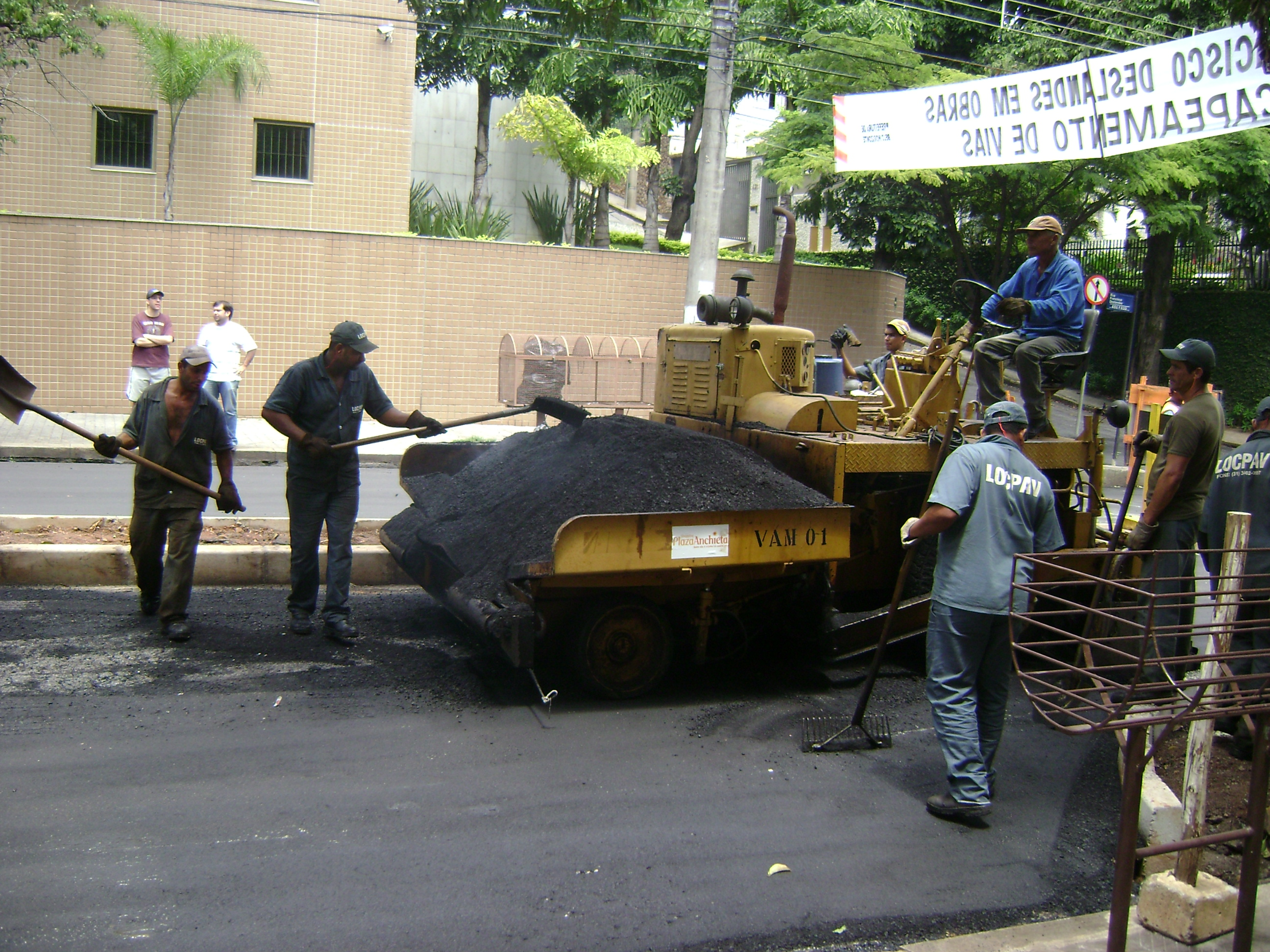 Resurfacing of Francisco Delandes avenue, in Belo Horizonte, Brazil.